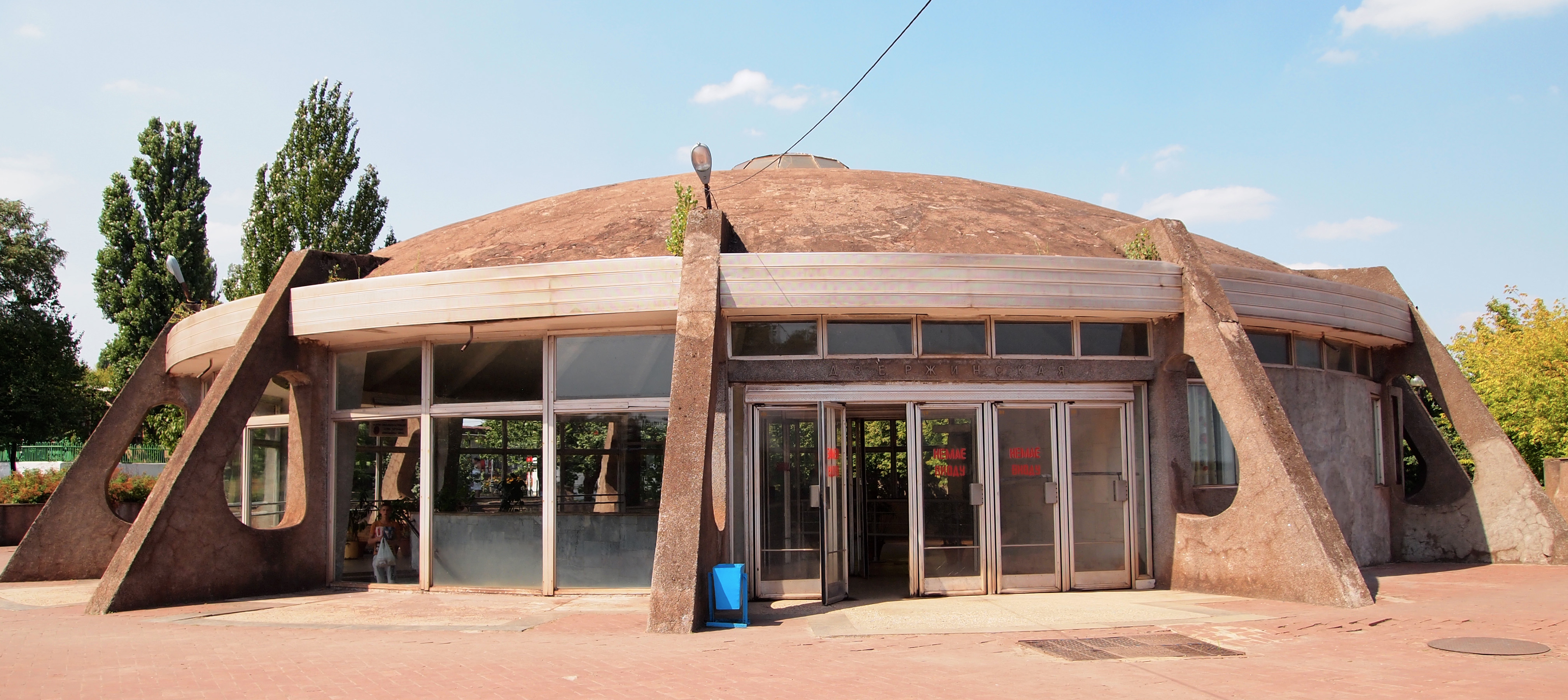 Dzerzhynska metro station in Kryvyi Rih. This photograph was taken with an Olympus E-PL1